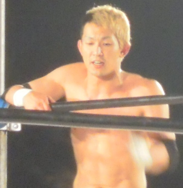 Japanese professional wrestler,Shinobu. BJW May 4 2010 Yokohama Cultural Gymnasium.